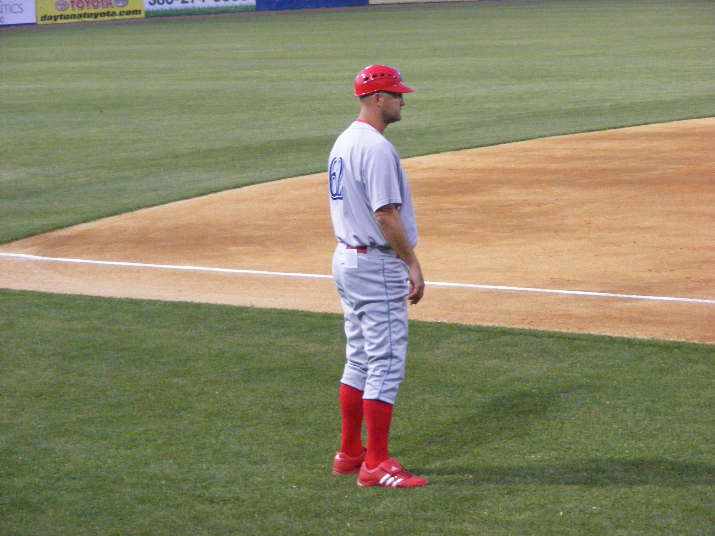 Dusty Wathan, Manager of the Clearwater Threshers. Photo taken at Jackie Robinson Ballpark, Daytona Beach, Florida, game vs. Daytona Cubs.